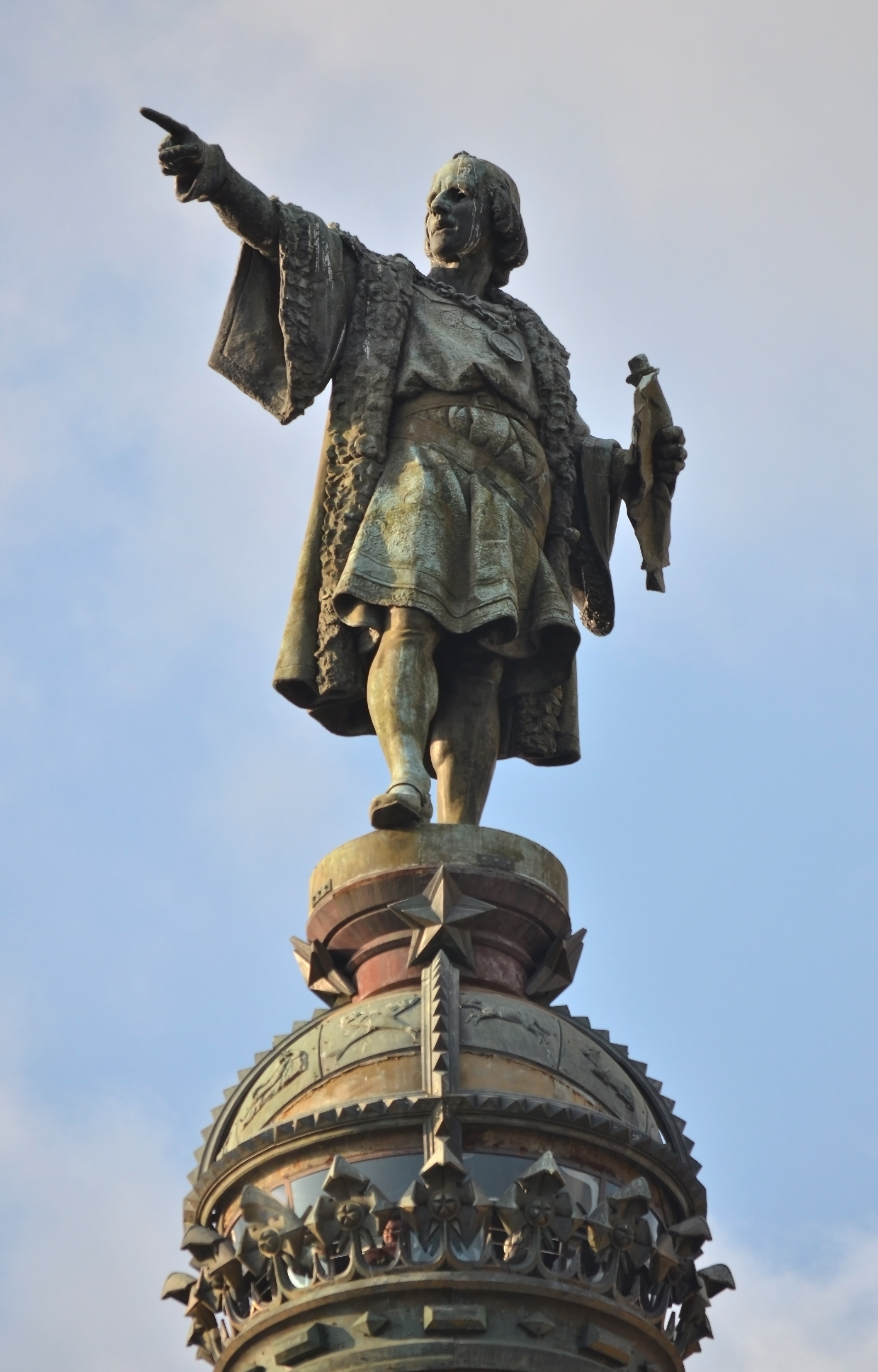 Columbus statue, Barcelona, Spain.